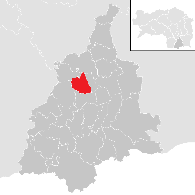 District Leibnitz